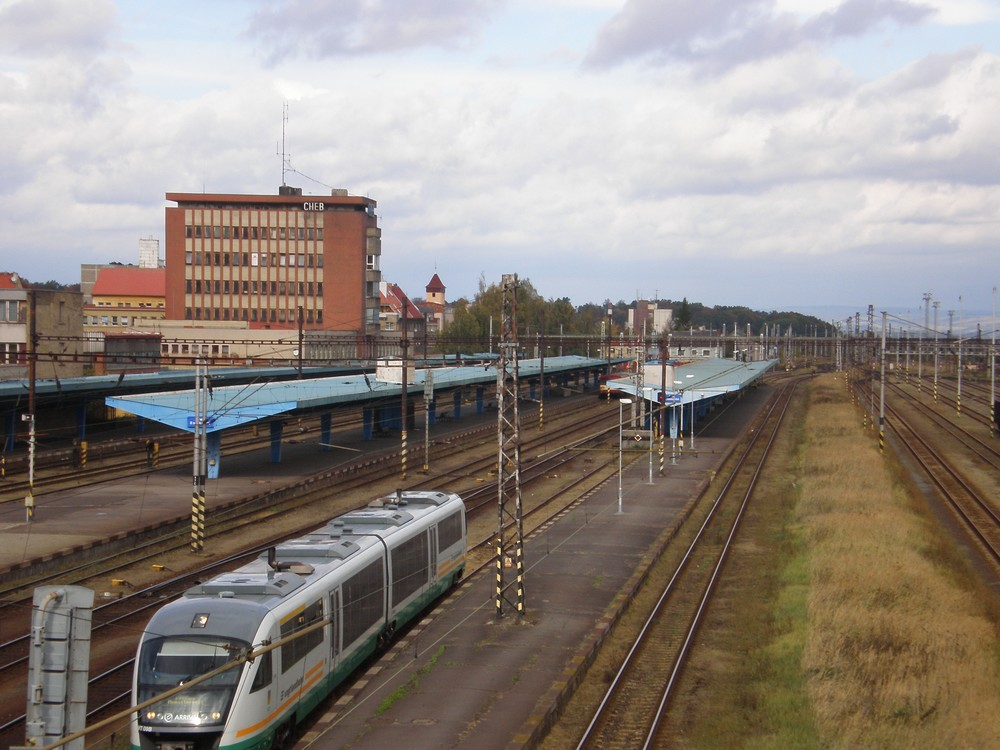 Cheb, Czech Republic; train station